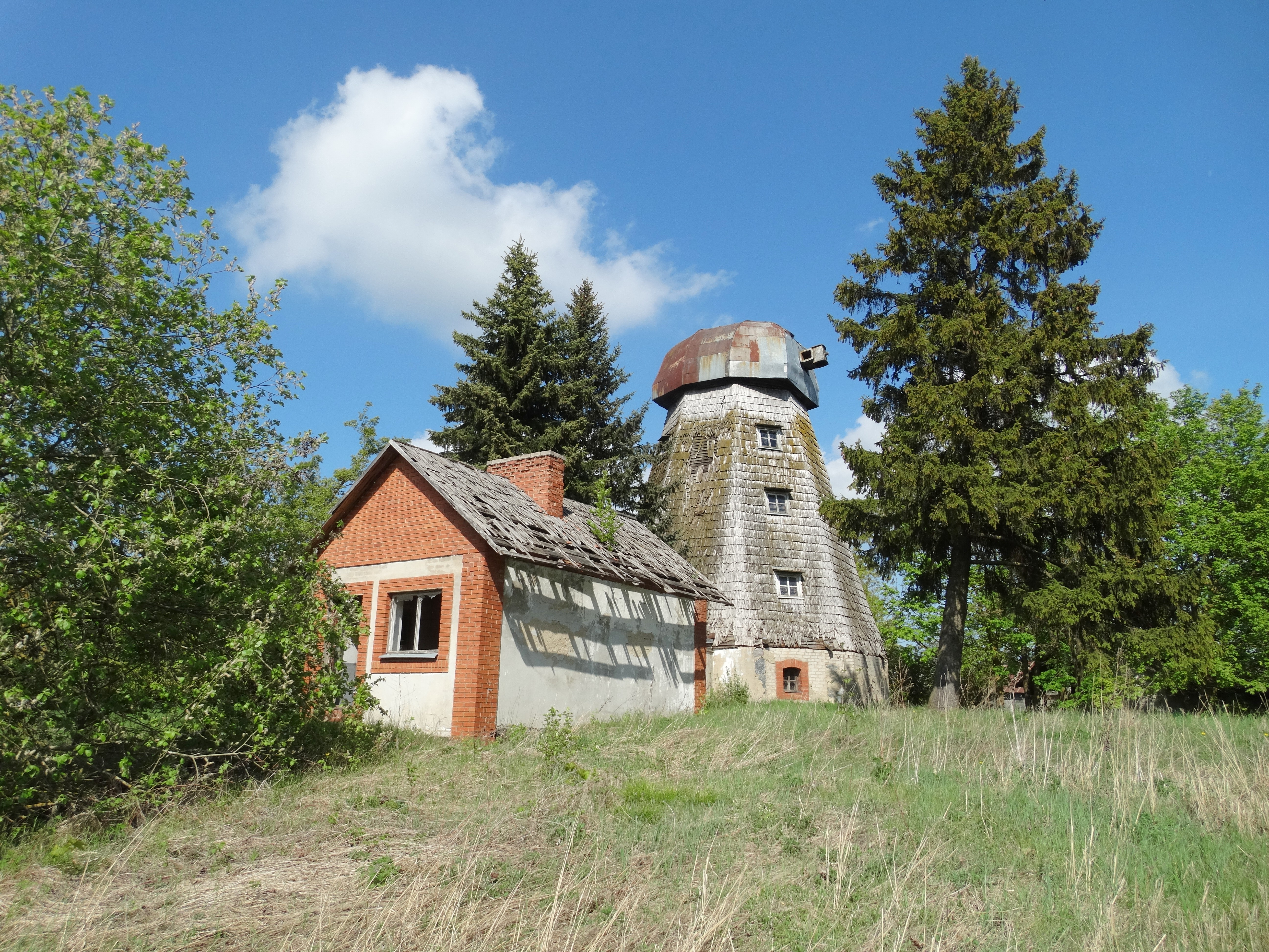 Windmill, Ūdekai, Pakruojis district, Lithuania